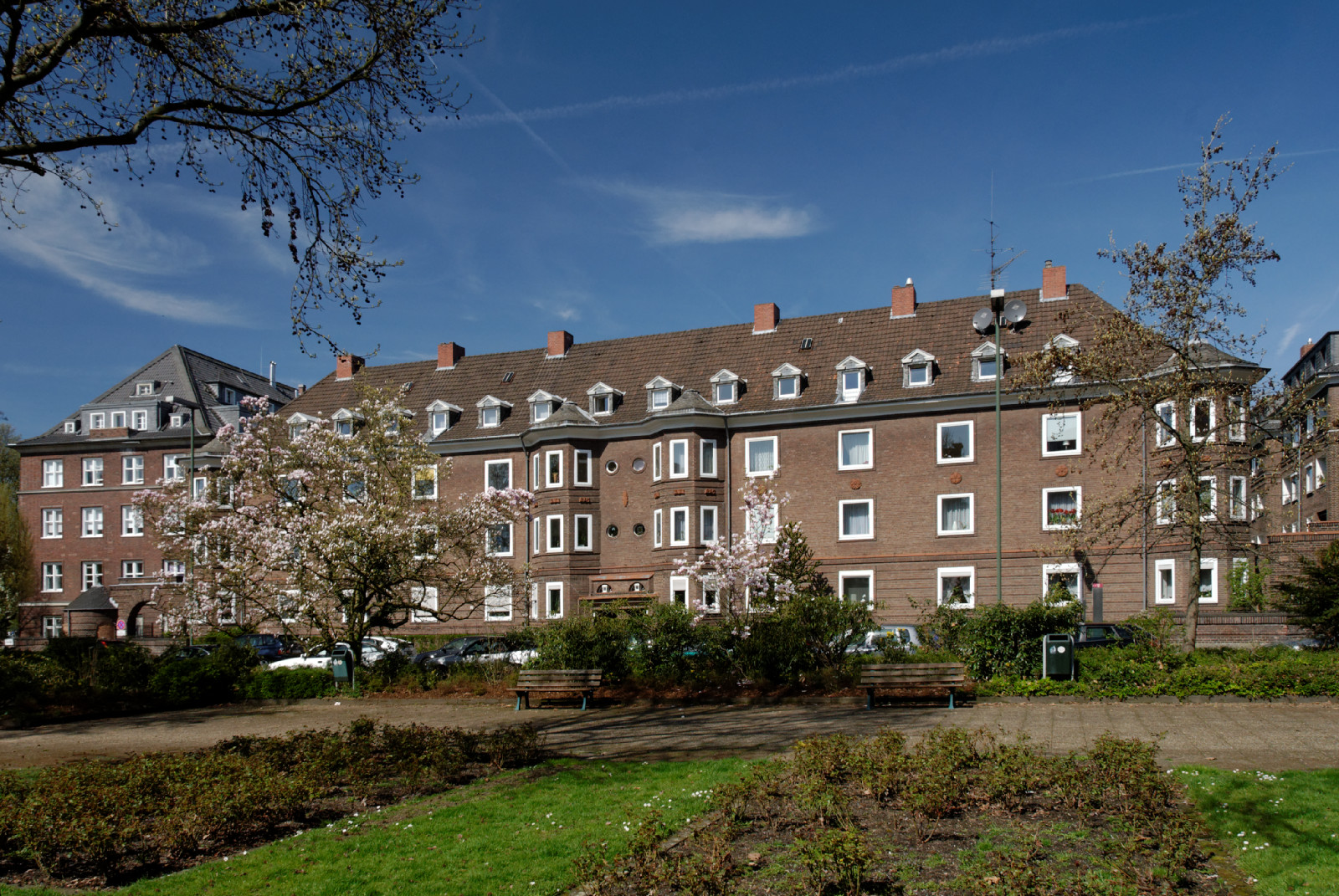 Golzheimer Platz and Golzheimer Platz 2 to 12 in Düsseldorf-Golzheim, Germany This is a photograph of an architectural monument. 265, 1560